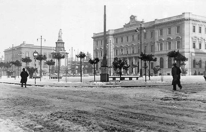 Unusual snowy Cagliari, 1910